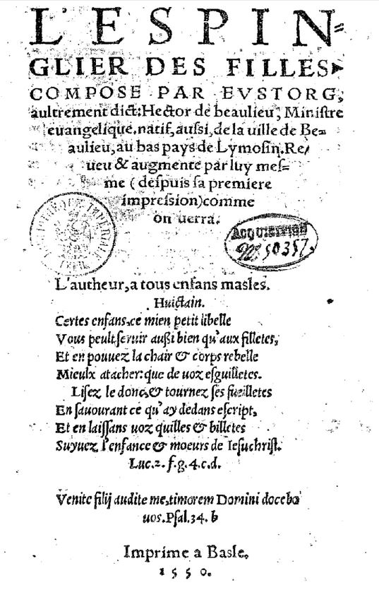 Title page of Eustorg de Beaulieu's Espinglier des filles